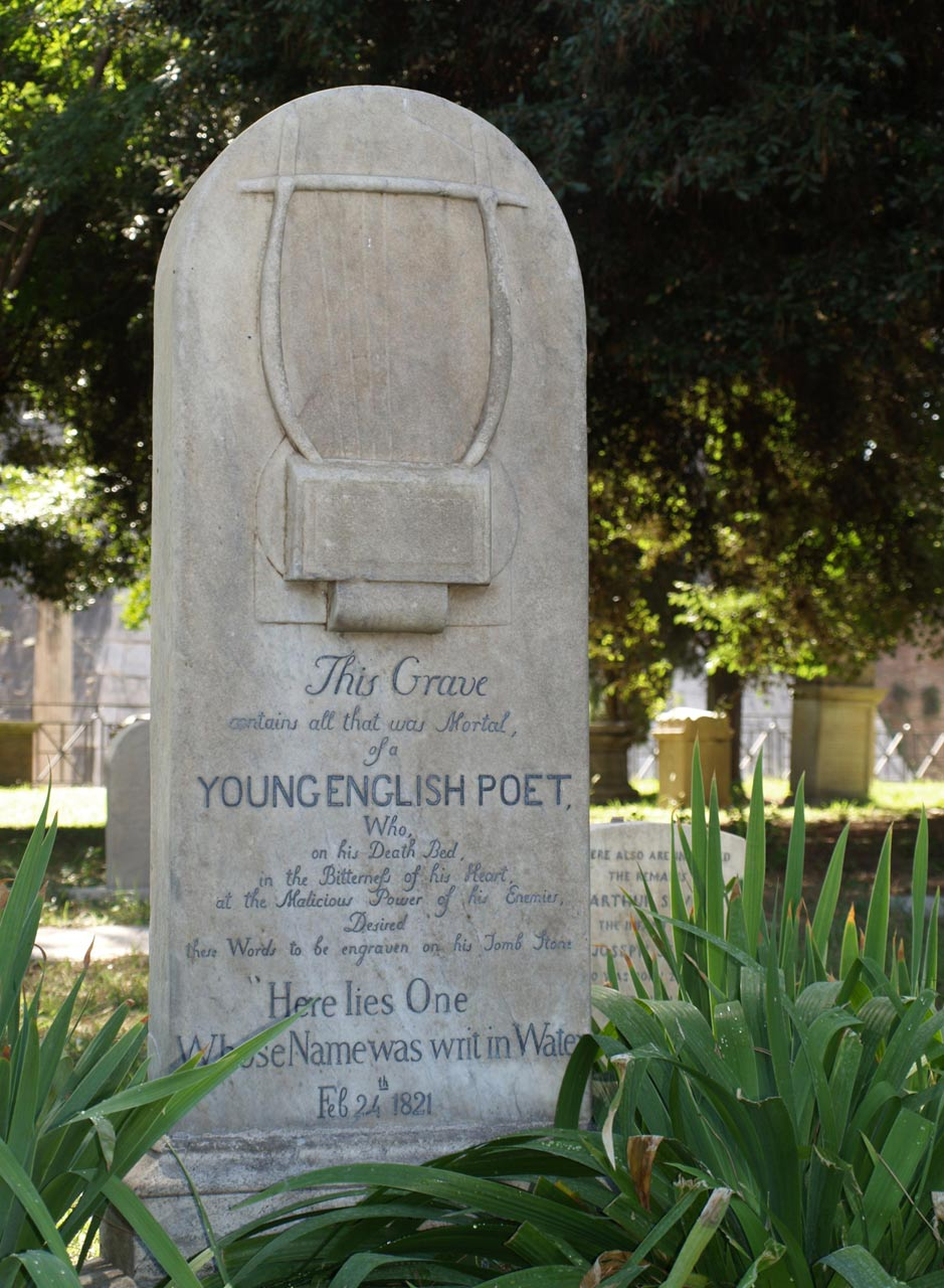 John Keats' tombstone. He died on 23 February 1821 and was buried in the Protestant cemetery, Rome, Italy. His last request was to be buried under a tombstone, without his name. On his grave is written: This Grave contains all that was Mortal, of a Young English Poet, Who, on his Death Bed, in the Bitterness of his Heart, at the Malicious Power of his Enemies, Desired these Words to be engraven on his Tomb Stone: Here lies One Whose Name was writ in Water. ~ 24 February 1821